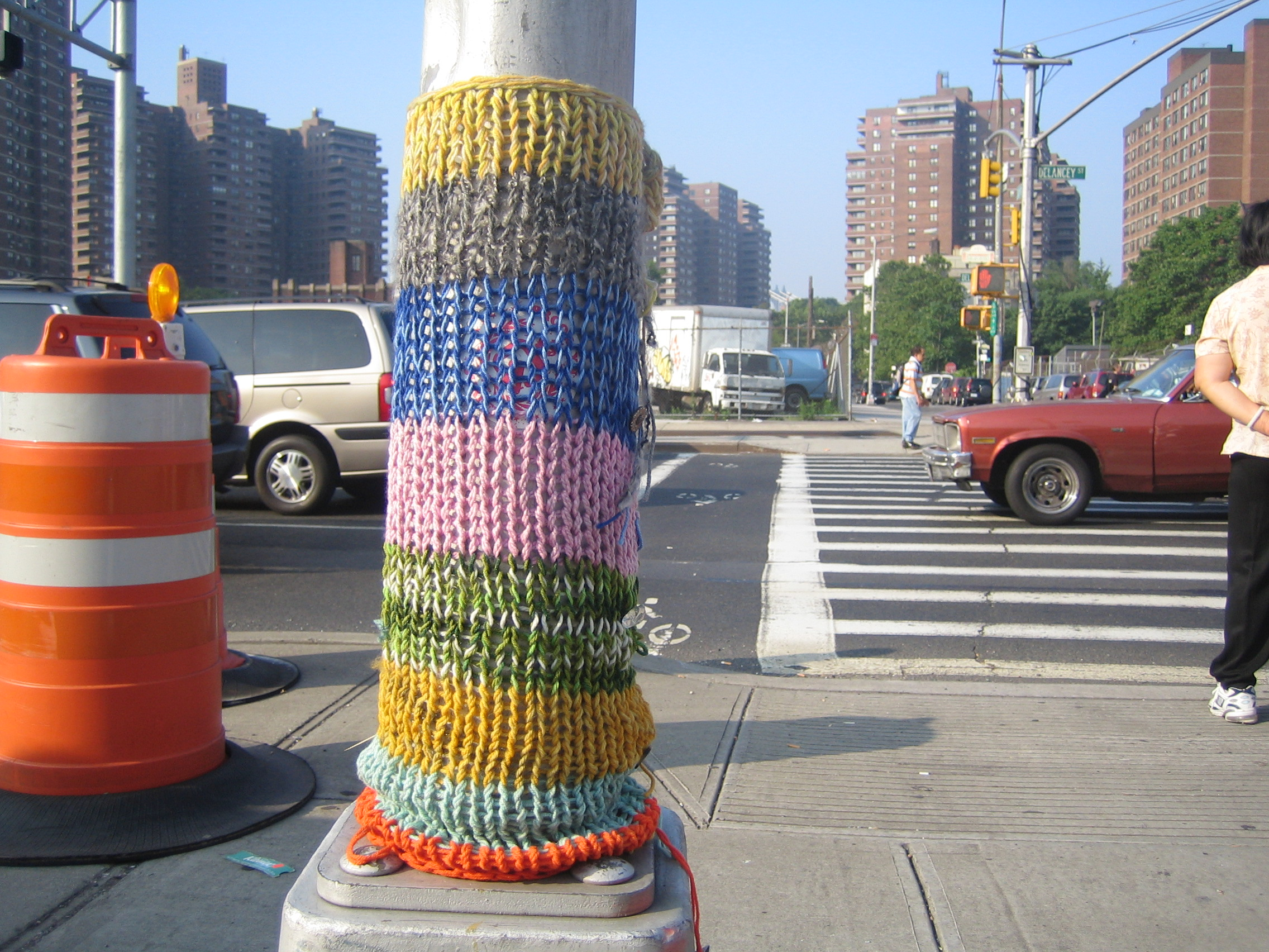 Utility pole warmer on a New York City street corner.